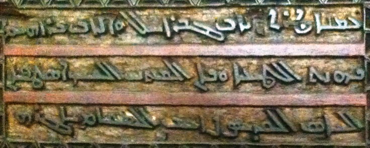 Left Side of the wooden Inscription inside Saint Awtel Church, Kfarsghab, Lebanon